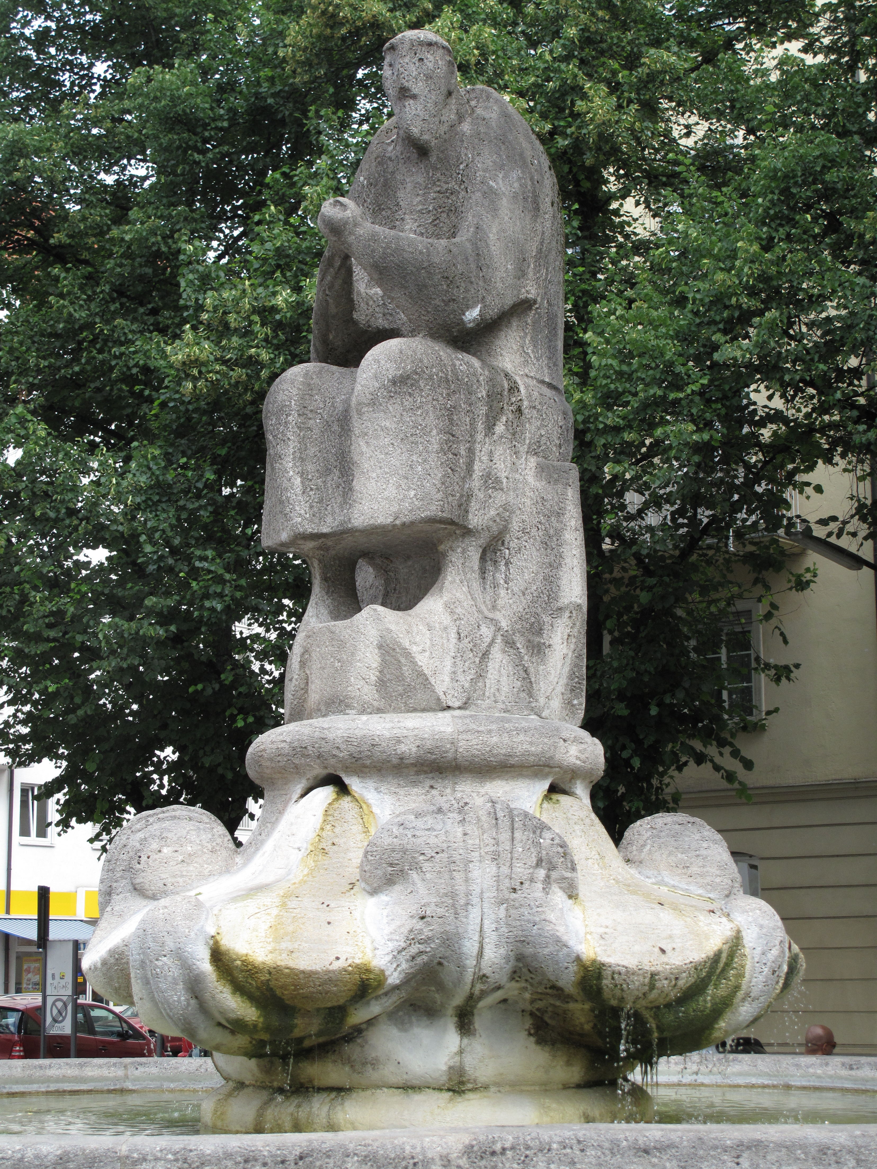 Fountain at the Josephsplatz in Munich (Maxvorstadt).